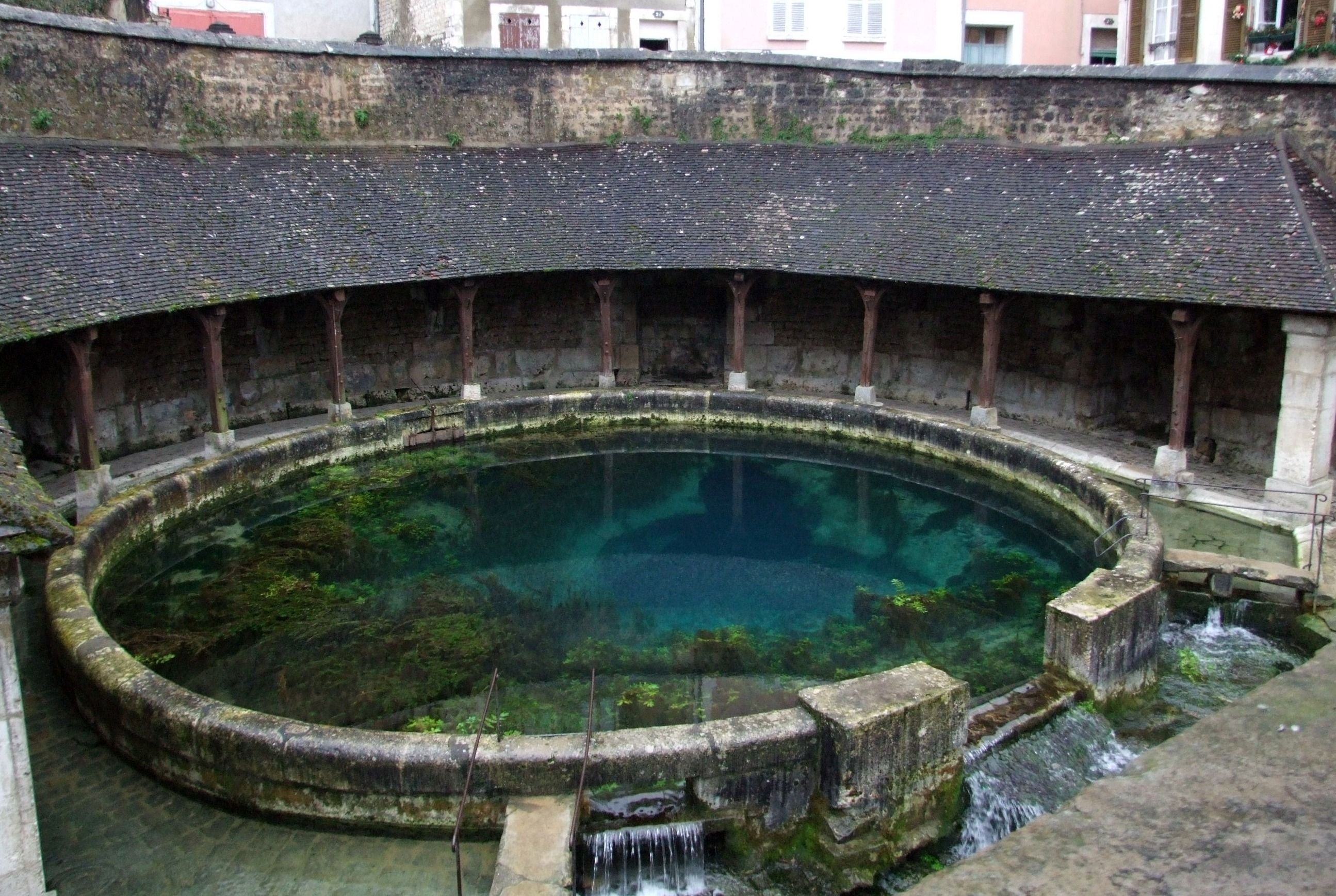 Tonnerre, Burgundy, FRANCE